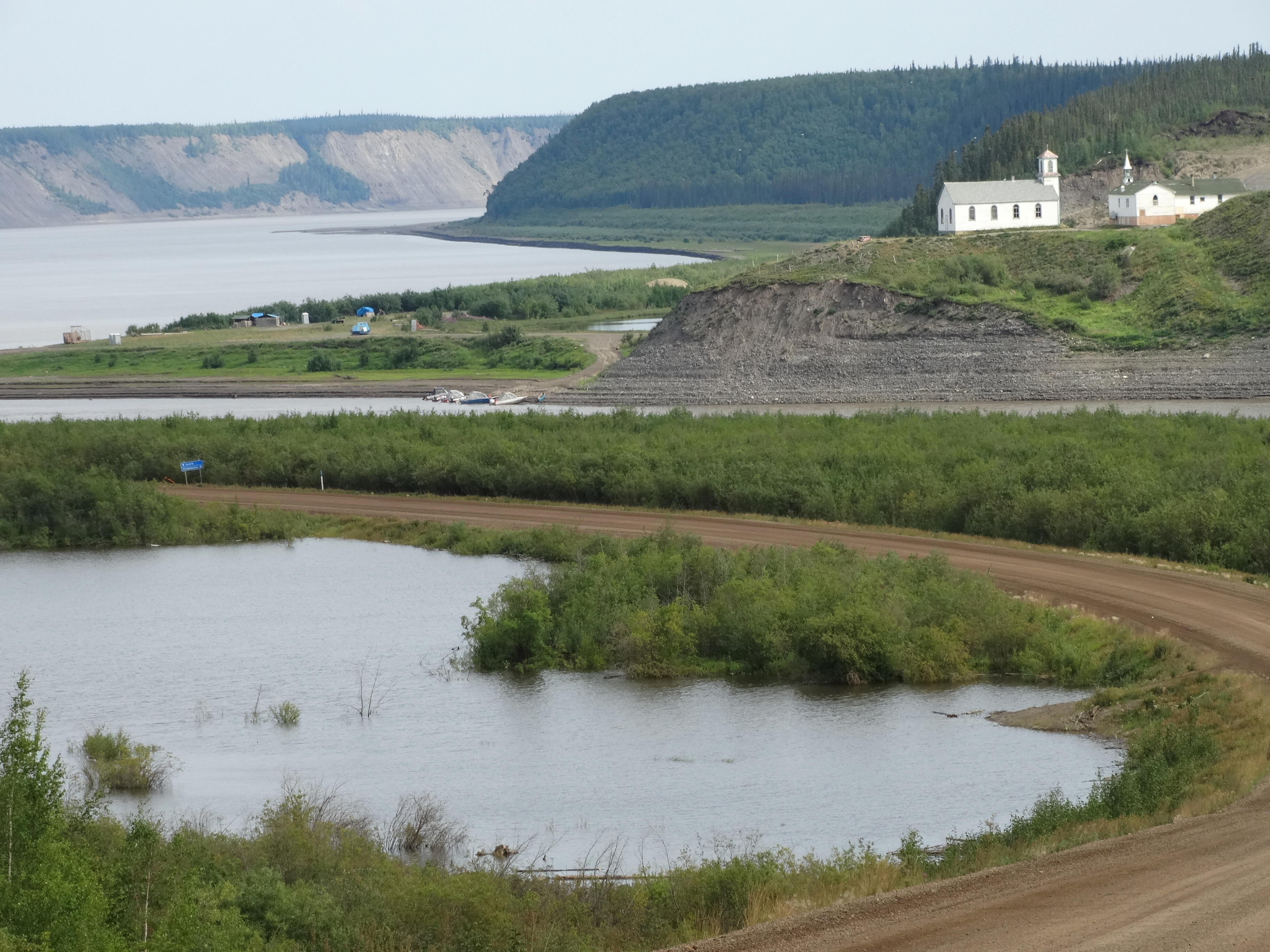 View over Churches and Shoreline - Hamlet of Tsiigehtchic - Near Inuvik - Northwest Territories - Canada